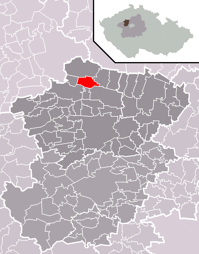 Location of Páleč municipality within Kladno District and administrative area of Slaný as a Municipality with Extended Competence.